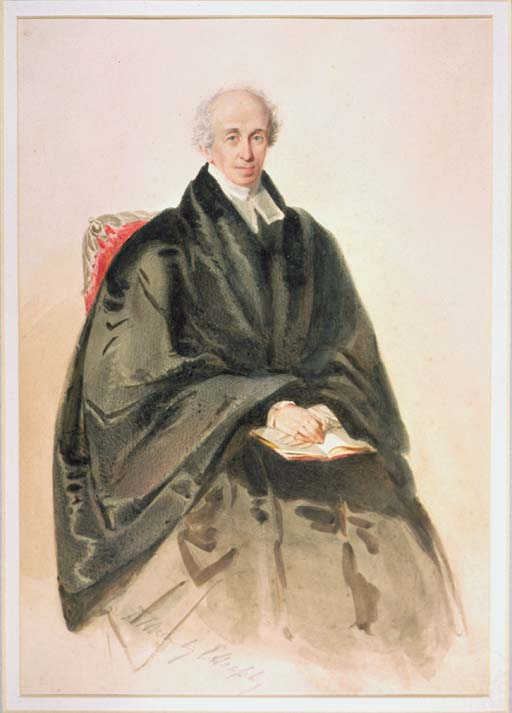 Portrait of a seated reverend Norman McLeod dressed in his clerical gown with an open book in his lap by Charles Heaphy